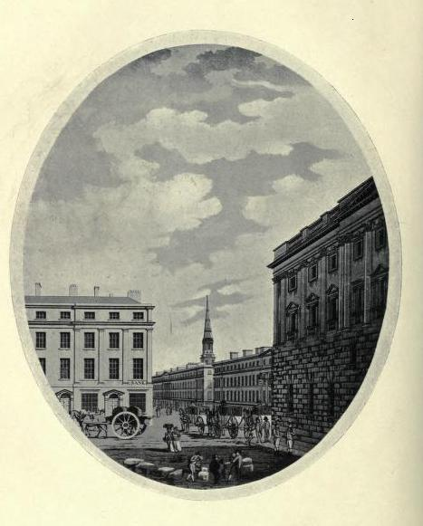 View of Castle Street, Liverpool.